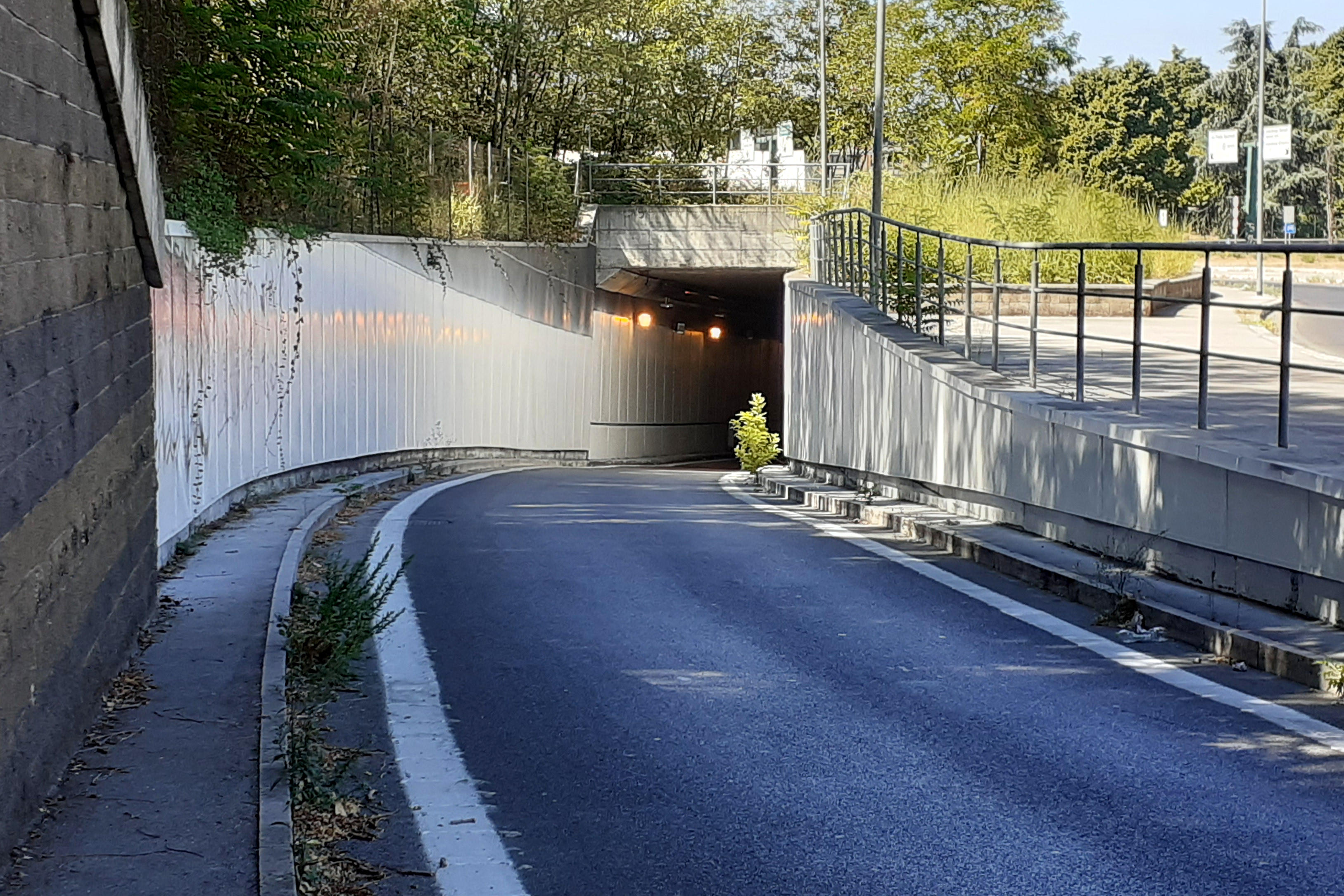 Exit of Giovanni XXIII Tunnell to via Pieve di Cadore / via Cortina d'Ampezzo, Rome